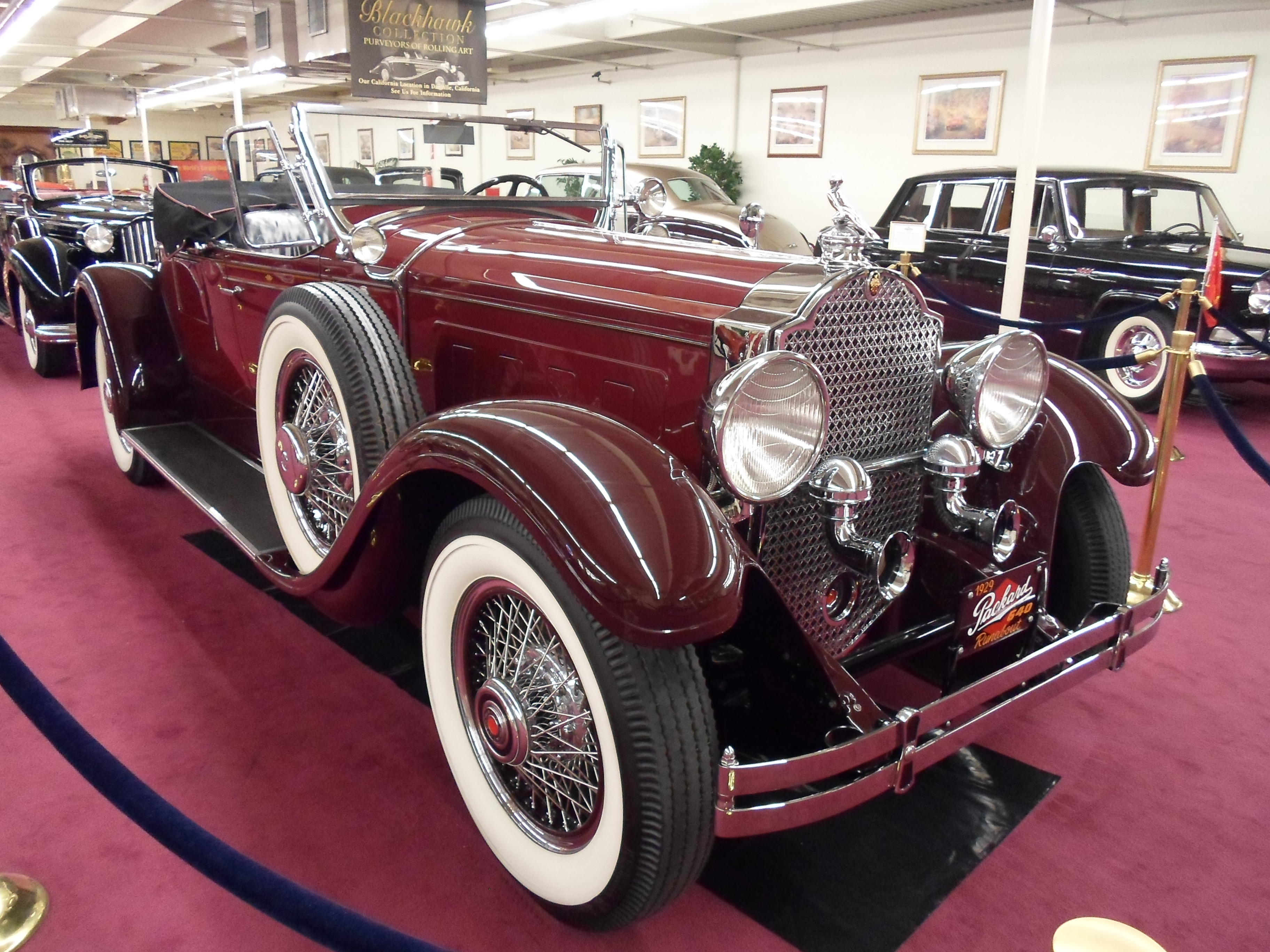 1929 Packard 640 Custom Eight Roadster